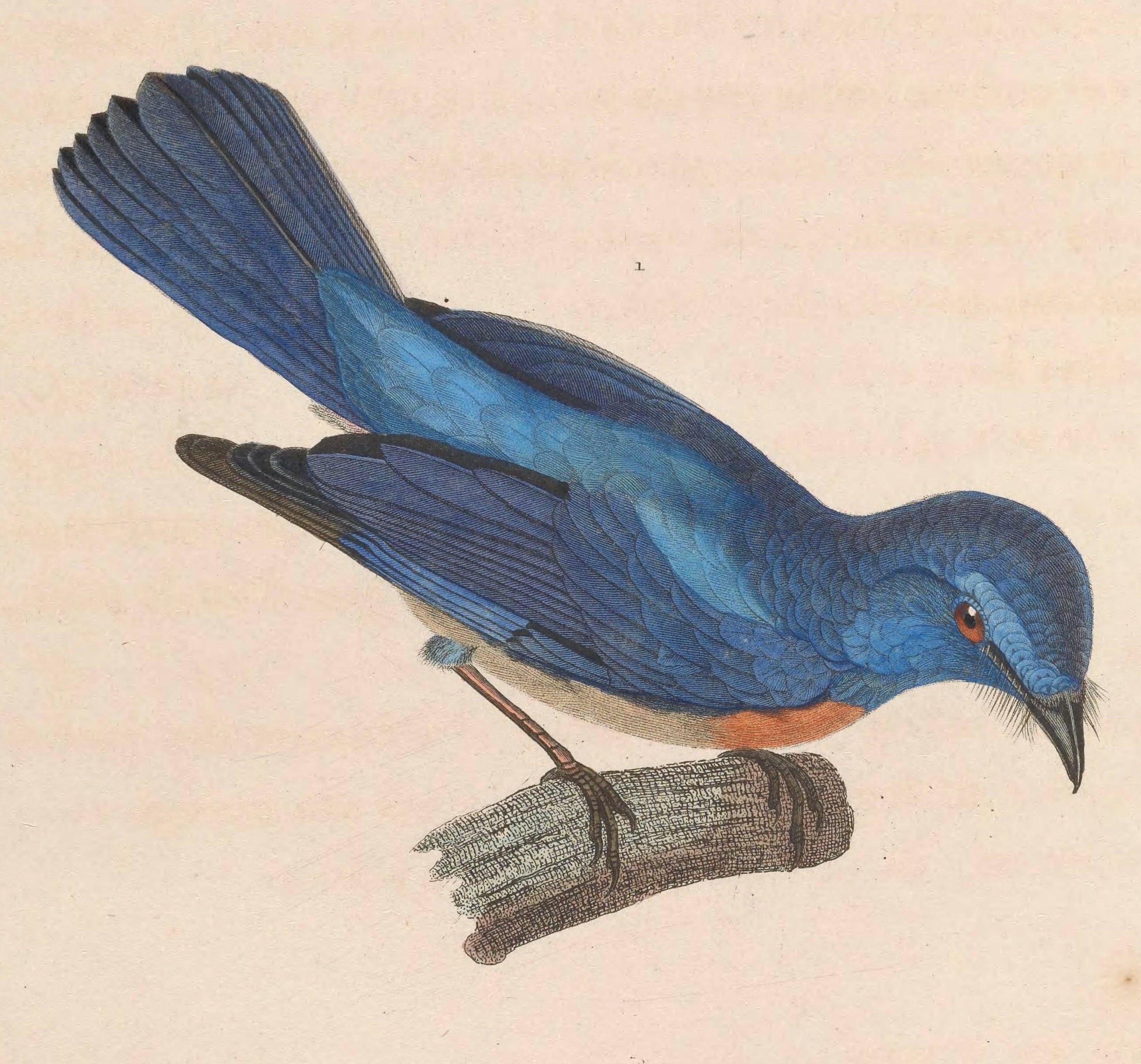 « Muscicapa elegans » = Cyornis turcosus (Malaysian Blue Flycatcher) - male